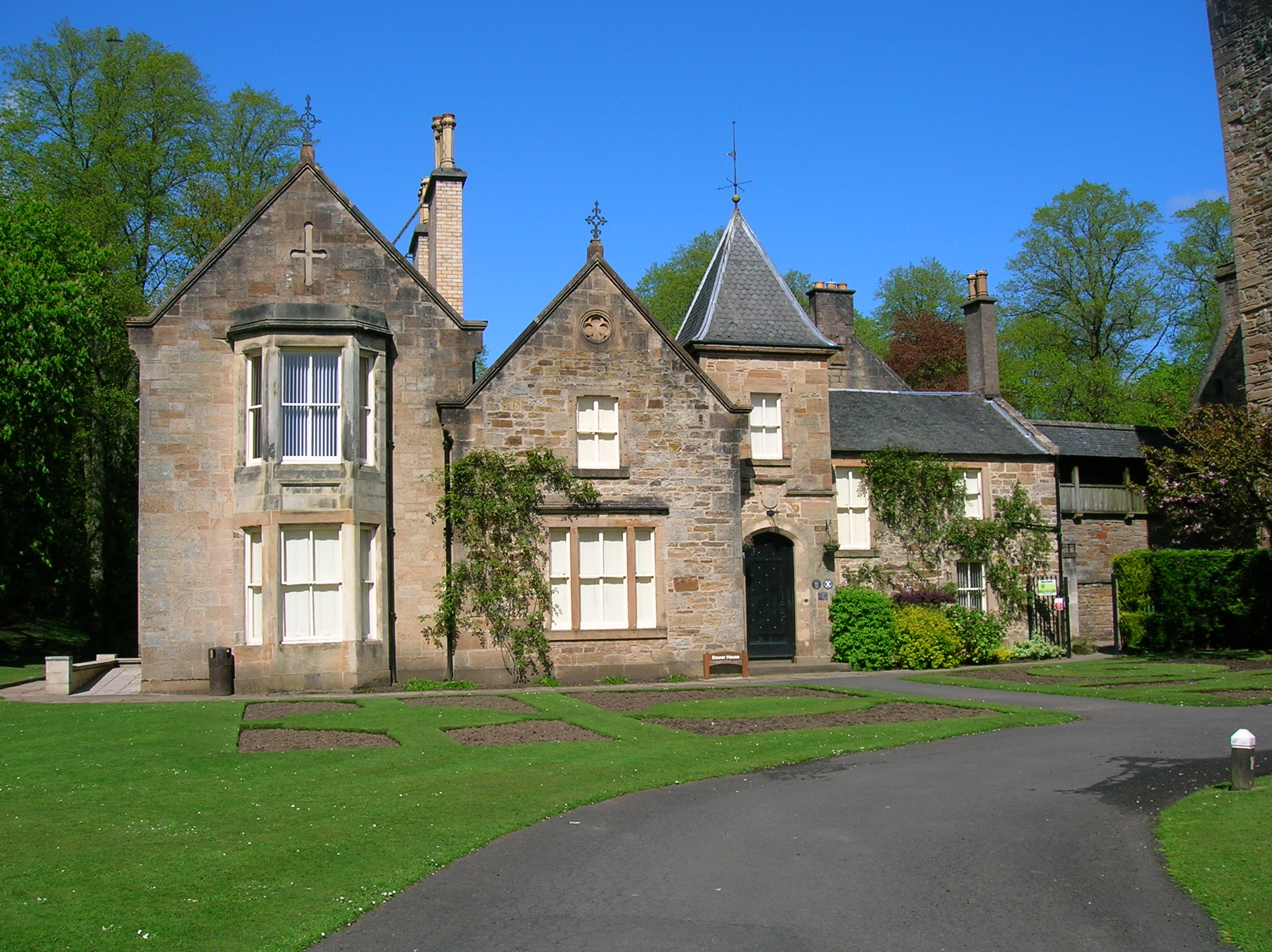 The Dower house at Dean Castle, East Ayrshire, Scotland